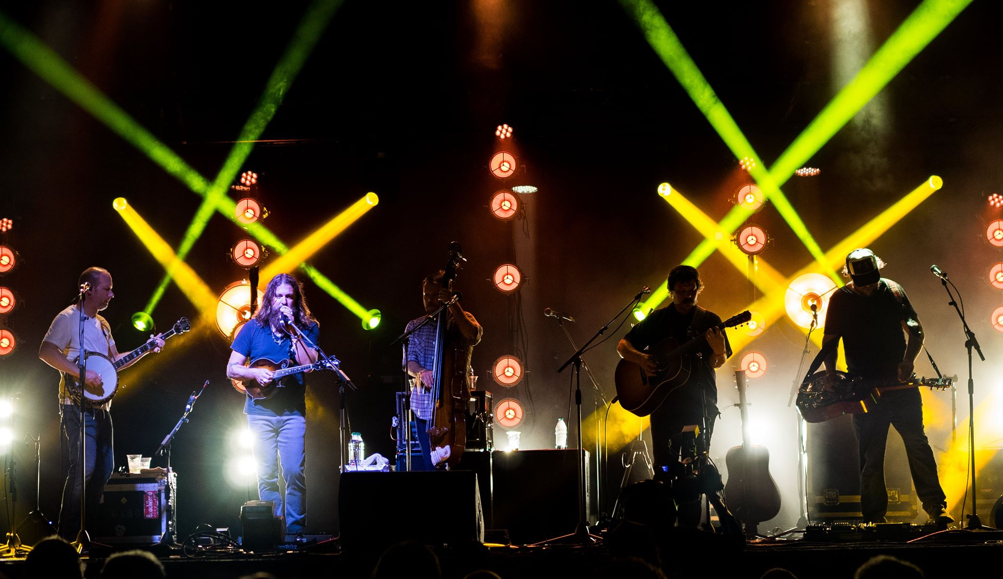 Greensky Bluegrass performs at Delfest 2018, in Cumberland, Maryland.